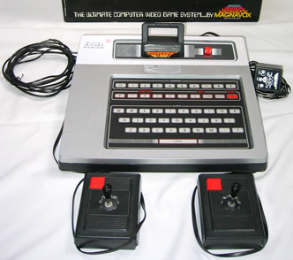 Magnavox Odyssey2 video game console with box.